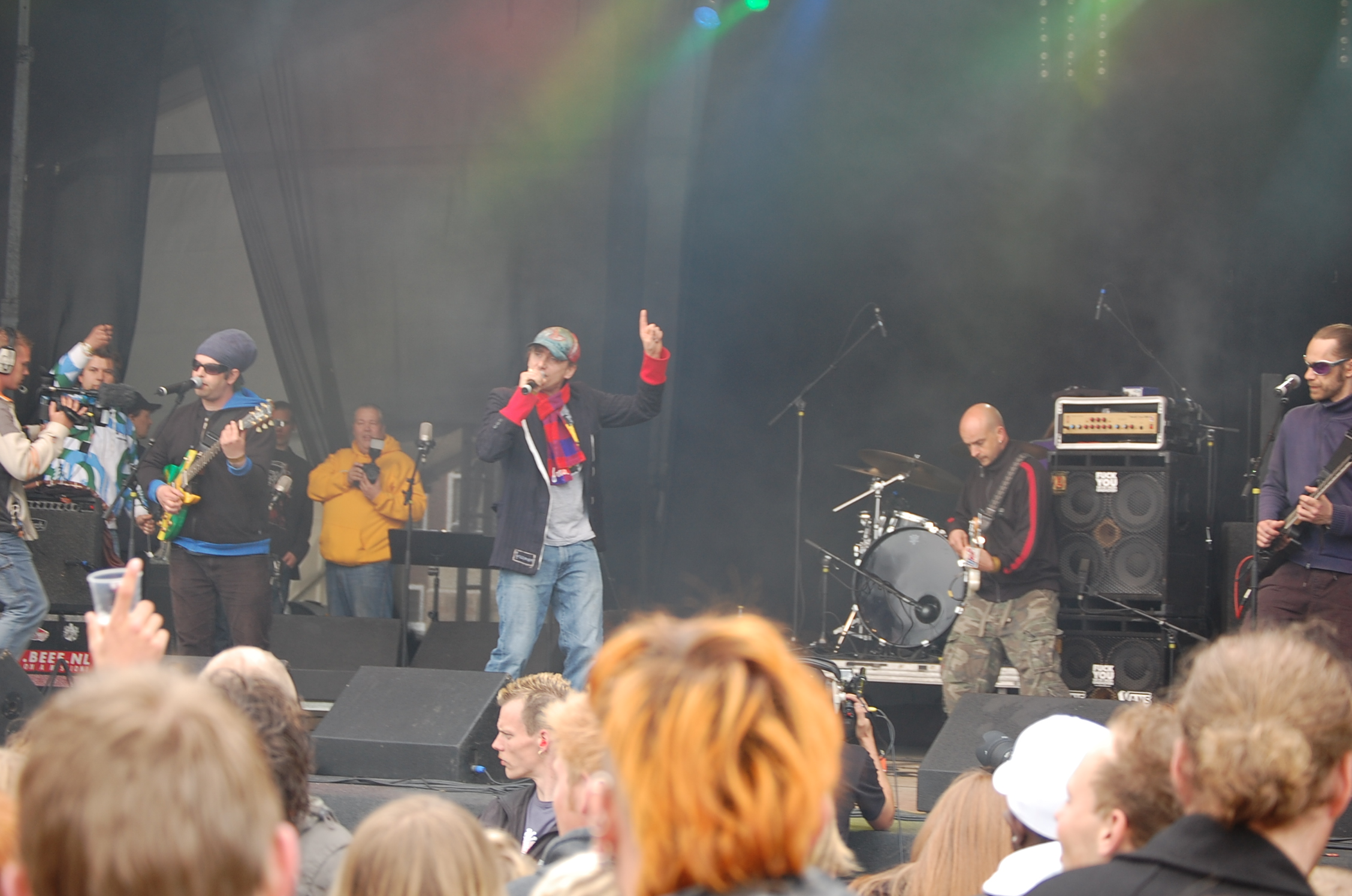 Dutch band Beef during bevrijdingsfestival 2009 in Leeuwarden